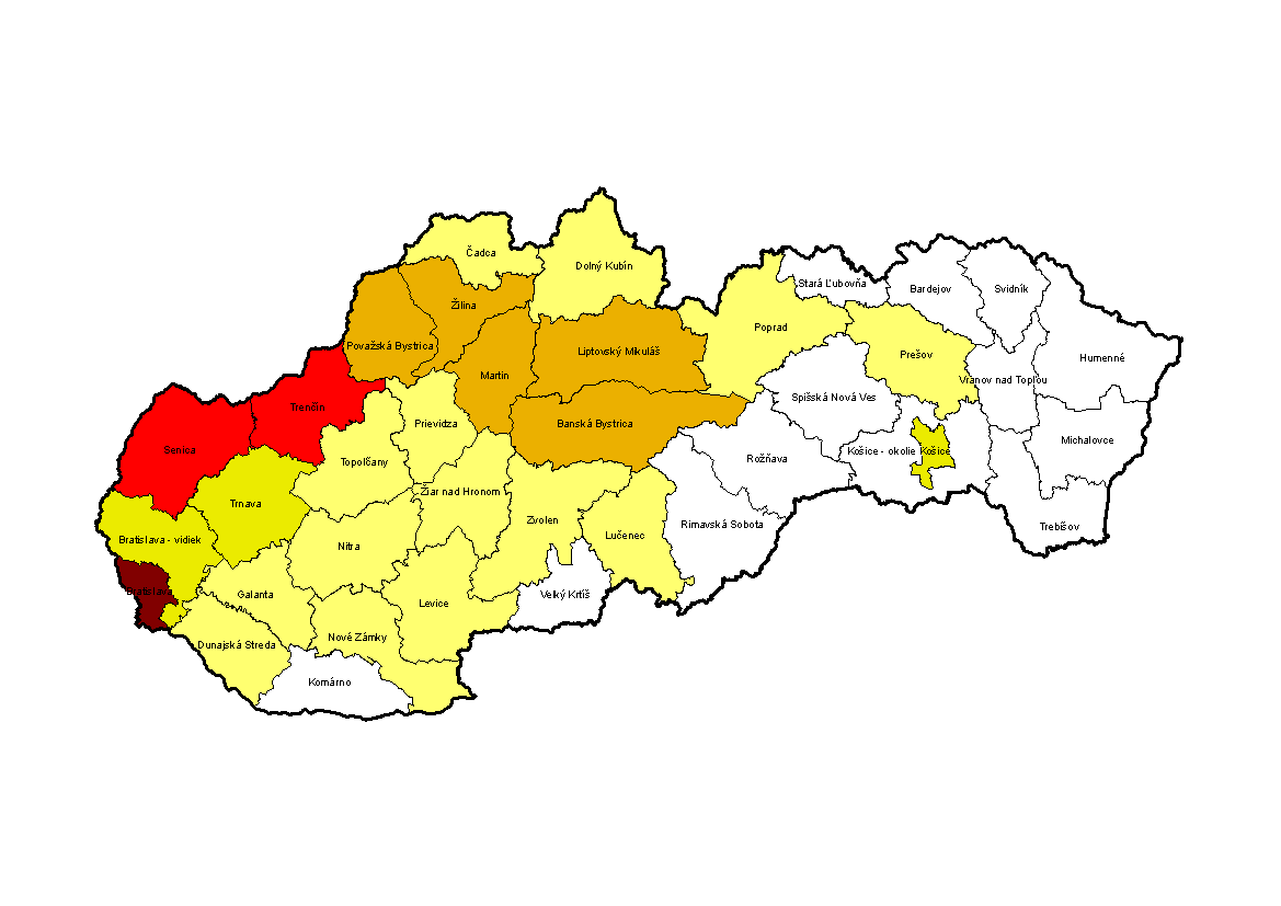 Moravian nationality by districts in Slovakia according to the census carried out in 1991.